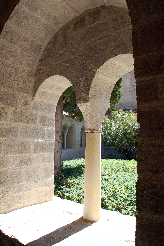 Saint-Guilhem-le-Désert, Languedoc-Roussillon, France